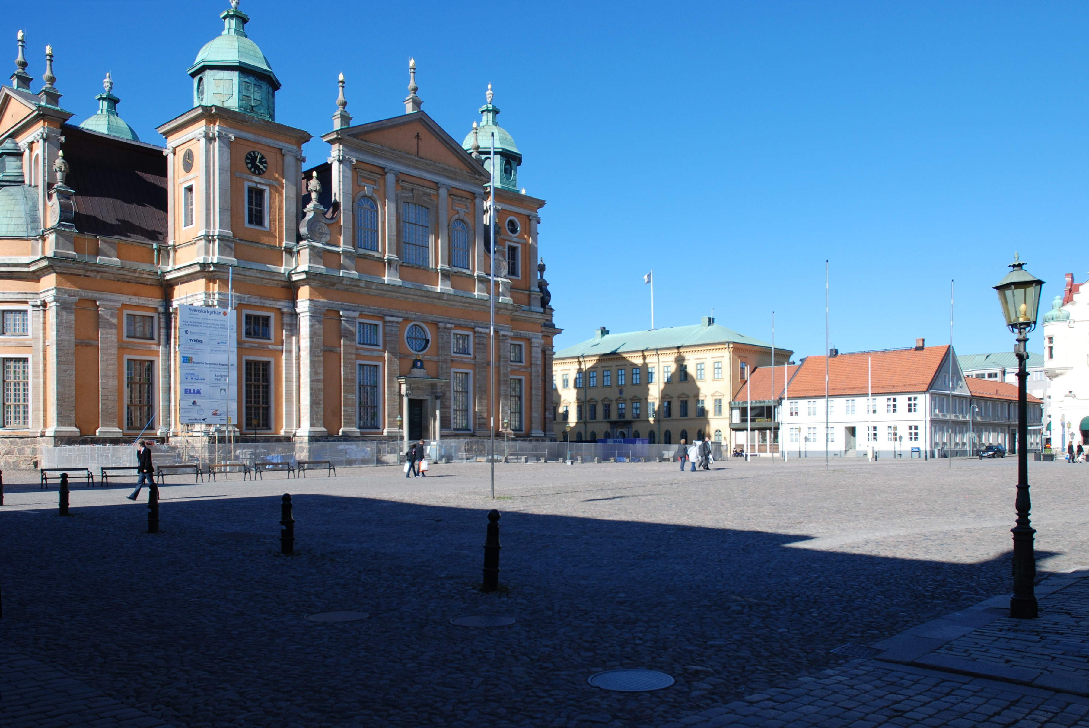 Stortorget (Main square) in Kalmar, Sweden. The square was refurbished in the early 90´s. Architects were Caruso StJohns in London and artist Eva Löfdahl (:sv:Eva Löfdahl), for which they were awarded the Siena Prize (:sv:Sienapriset) 2004.